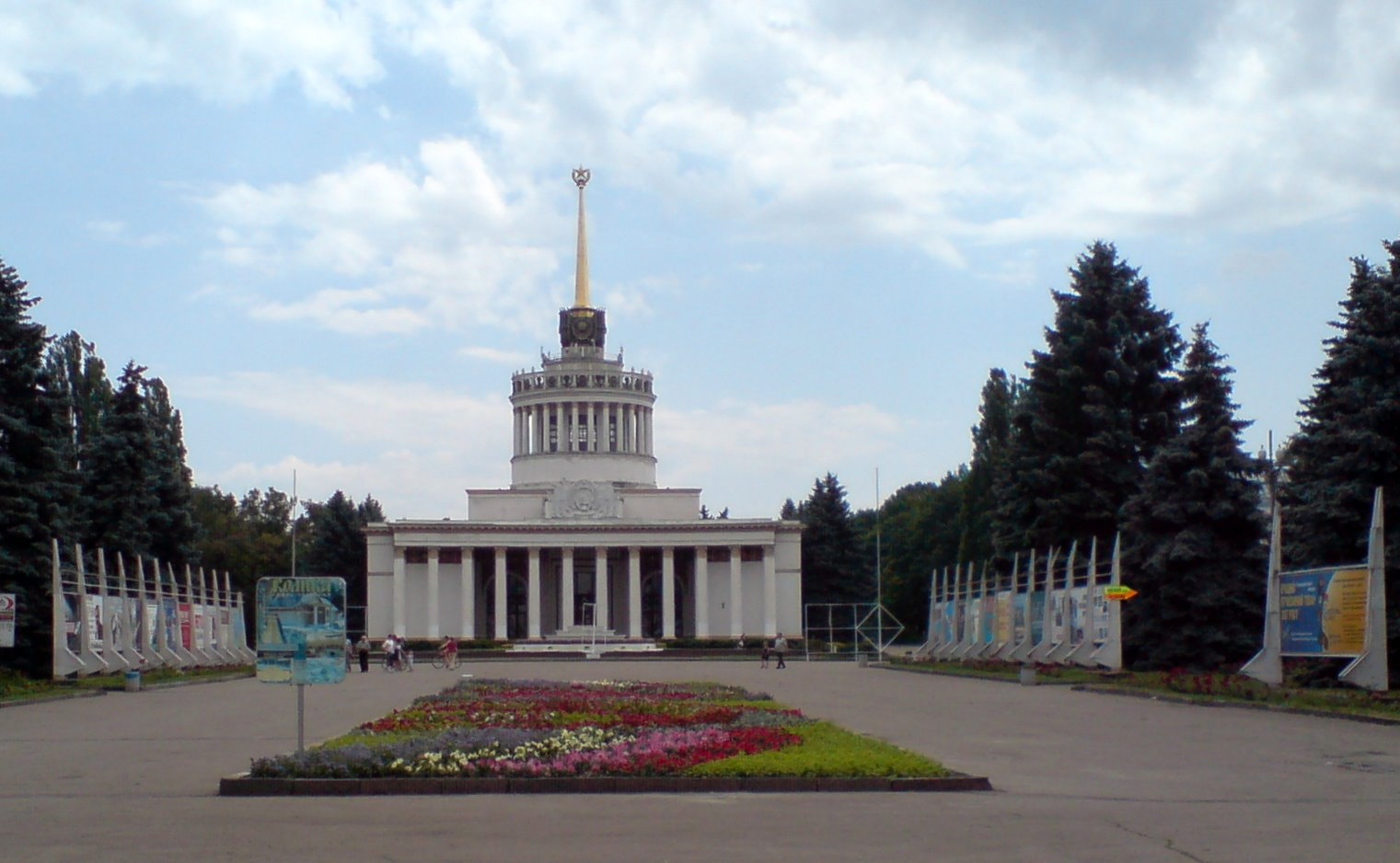 Kiev. National Expocenter